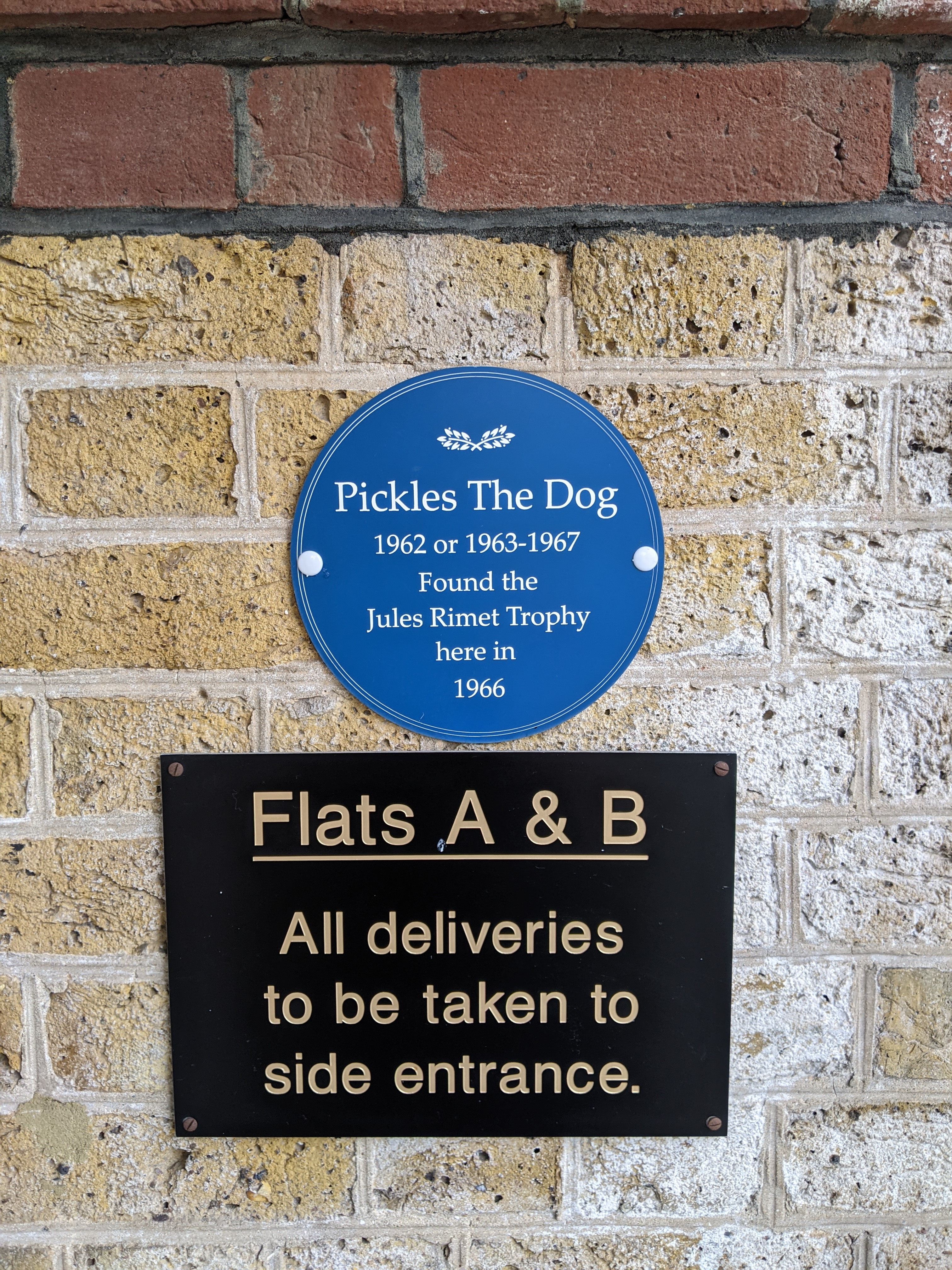 A plaque for Pickles the Dog, erected in 2018, in the area where Pickles found the World Cup Trophy on Beulah Hill, Upper Norwood.